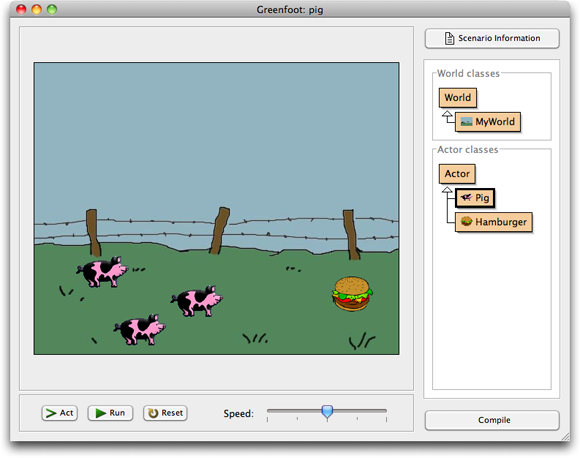 A screenshot of the Greenfoot software.